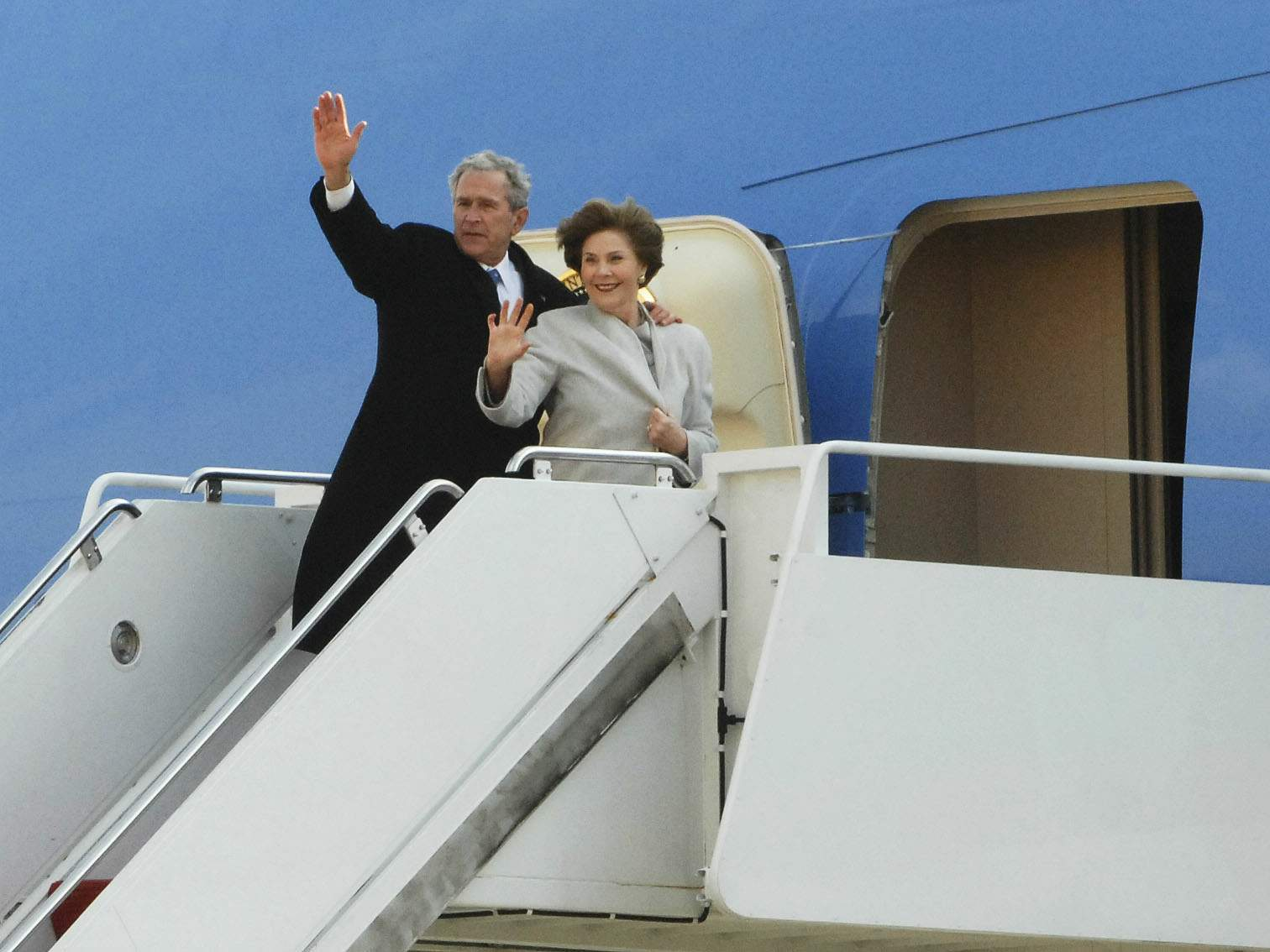 Former President George W. Bush and his wife Laura before their flight to Dallas (Texas), with one of the VC-25 airplanes.